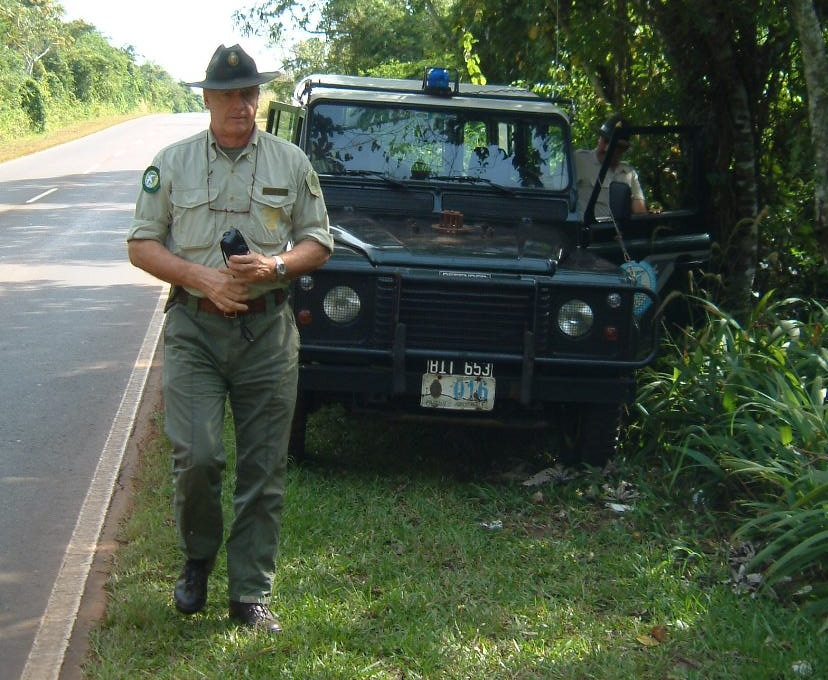 Jorge Cieslik (29 December 1947 – 10 June 2012) was an argentine explorer, photographer, writer and ranger in the National Park Iguazú (Parque Nacional Iguazú) in Misiones Province, Argentina